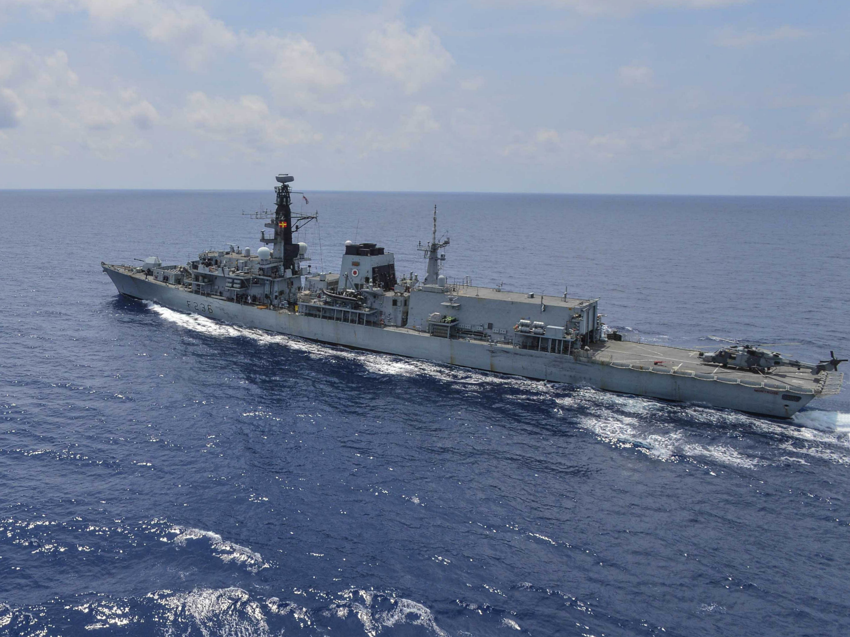 The Royal Navy Duke-class frigate HMS Montrose (F236) underway in the Gulf of Thailand on 18 February 2019.